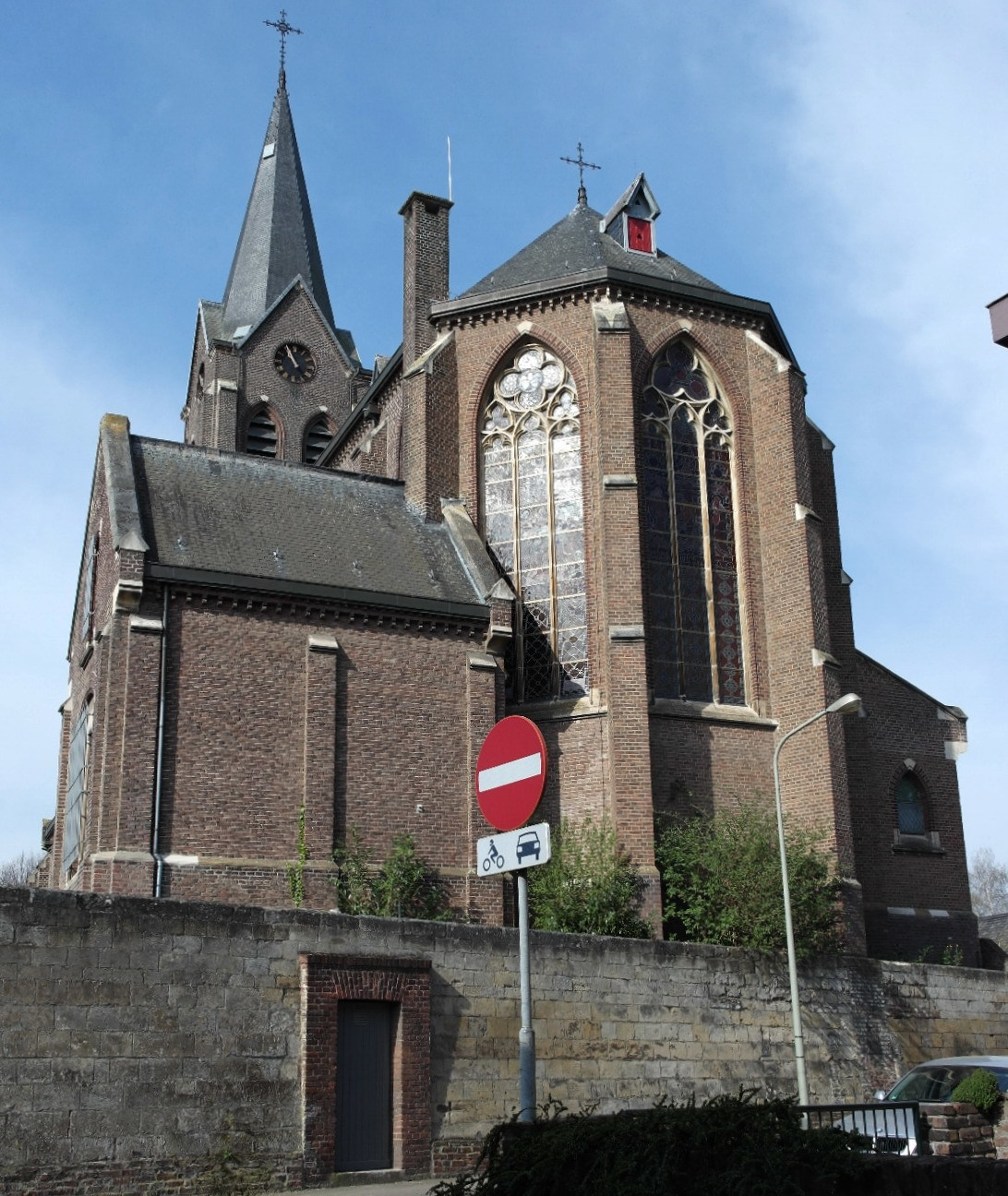 Maastricht, the Netherlands. View of the parish church of Saint Peter and Paul in Wolder.